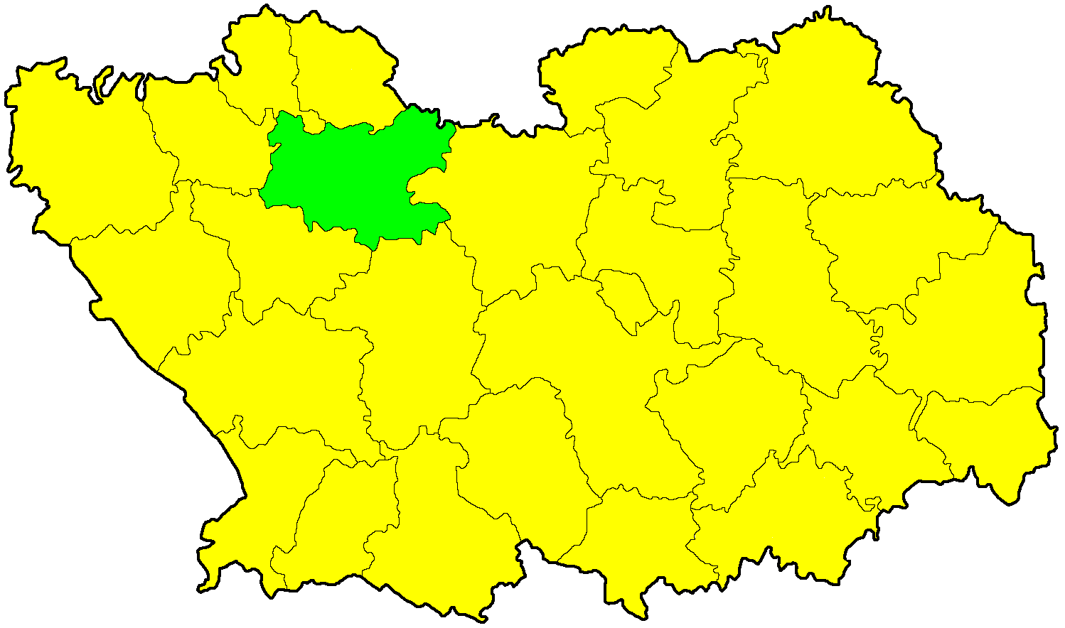 Nizhnelomovsky District, Penza Oblast, Russia